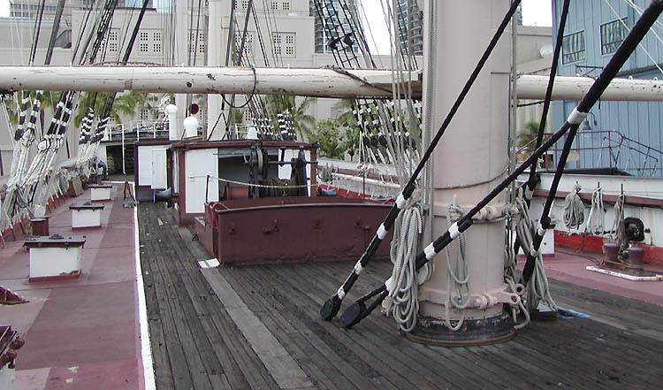 Photo of deck of the Falls of Clyde